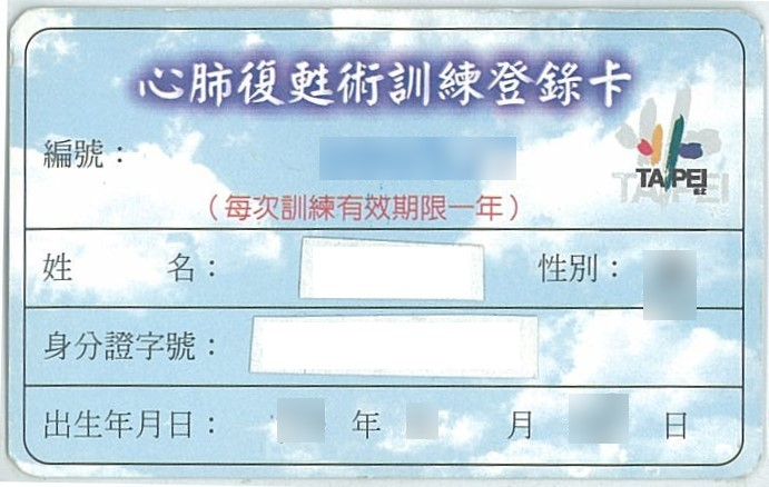 The cardiopulmonary resuscitation (CPR) training registration card printed by Taipei City Government.